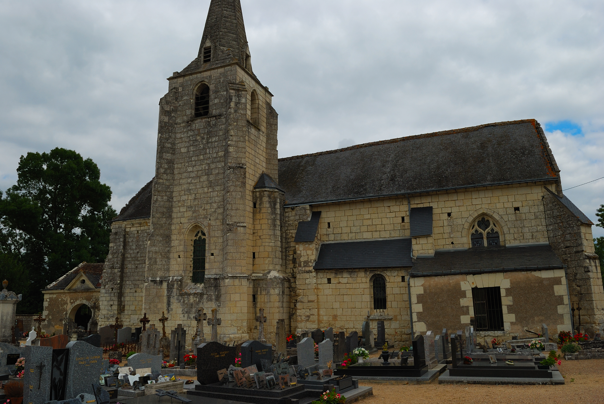 Church of Saint Symphorian at the village of Anché near Chinon, department Indre et Loire, France. Nikon D60 f=18mm f/9 at 1/320s ISO 100. Colour corrected using Nikon ViewNX 1.3.0.